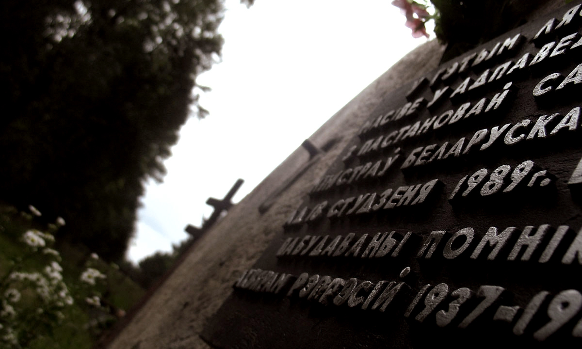 Kurapaty near Minsk is the place where mass executions of Belarusian civilians were carried out during the Stalin regime (1937 - 1941) Беларуская (тарашкевіца): Урочышча Курапаты пад Менскам — месца масавых расстрэлаў і пахаваньняў беларускіх цывільных асобаў, зьдзейсьненыя падчас сталінскіх рэпрэсіяў у 1937—1941 гадох